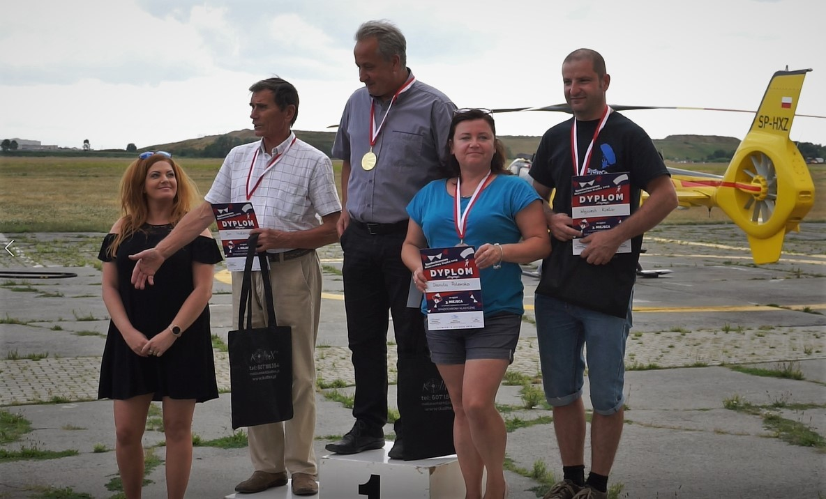 Skydiving Championships of Silesia in 2019